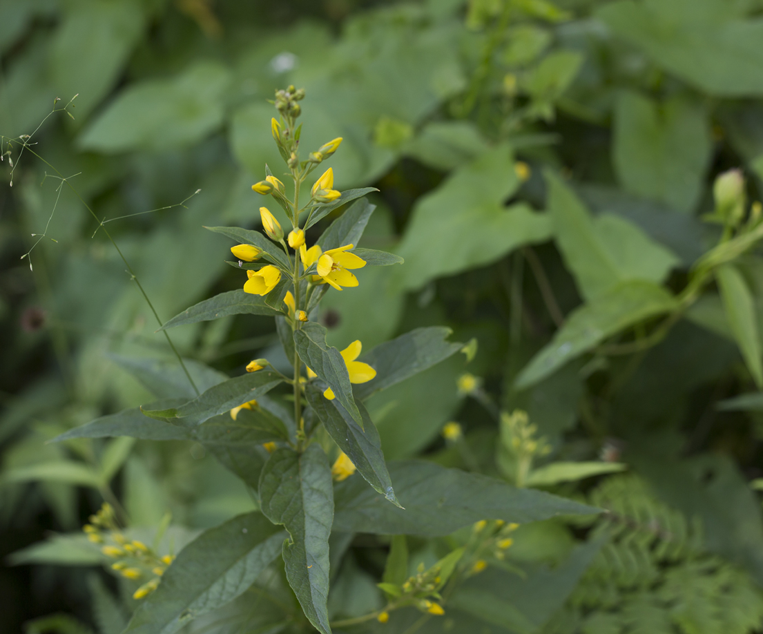 Yellow Loosestrife in southern Stockholm, Sweden.